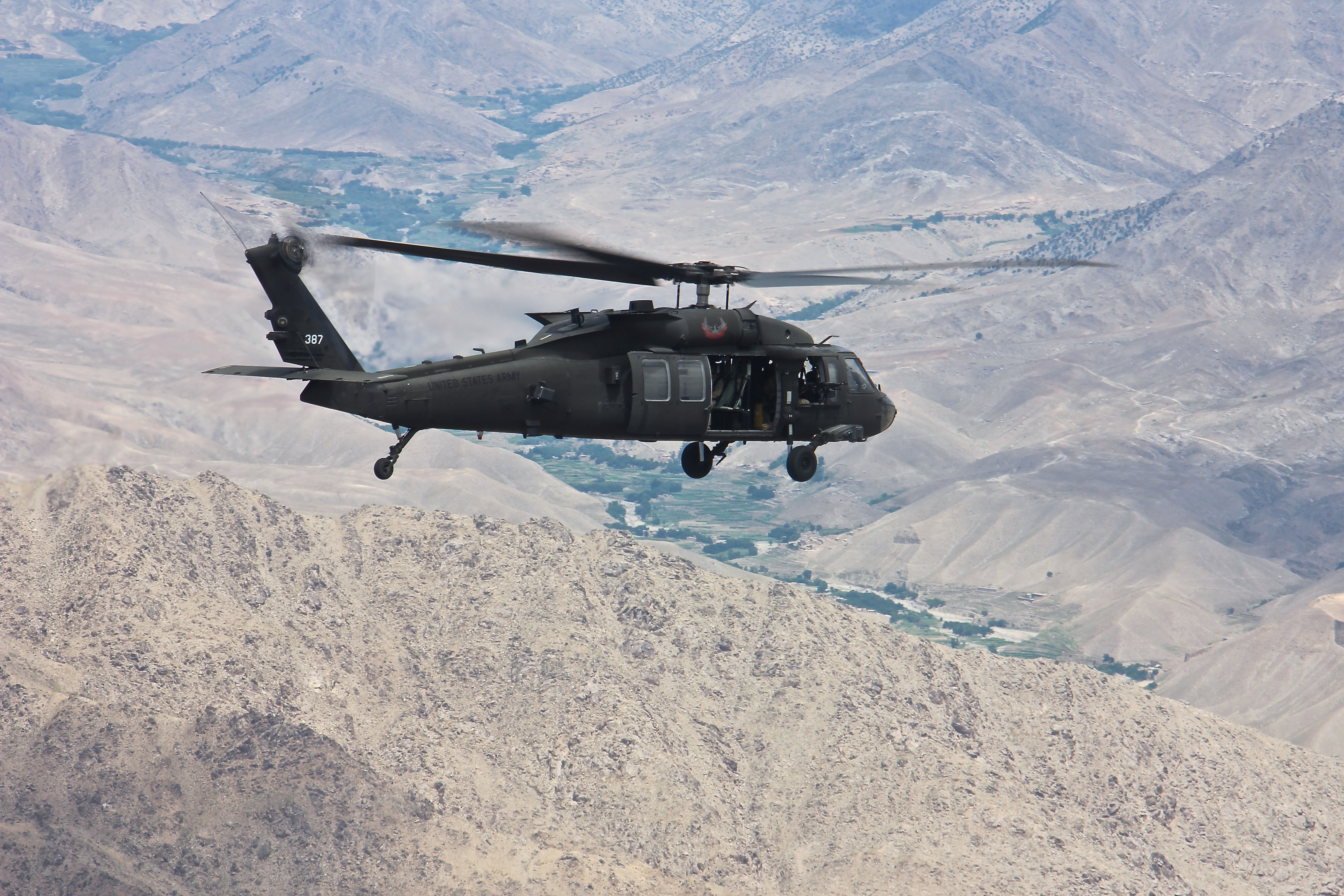 A UH-60 Black Hawk helicopter assigned to Task Force Eagle Assault, 5-101 Combat Aviation Brigade, flies over the rugged terrain of eastern Afghanistan, July 28, 2015. The helicopters and crews of Eagle Assault provide critical air movement of troops and air weapons support to Train Advise Assist Command-East.